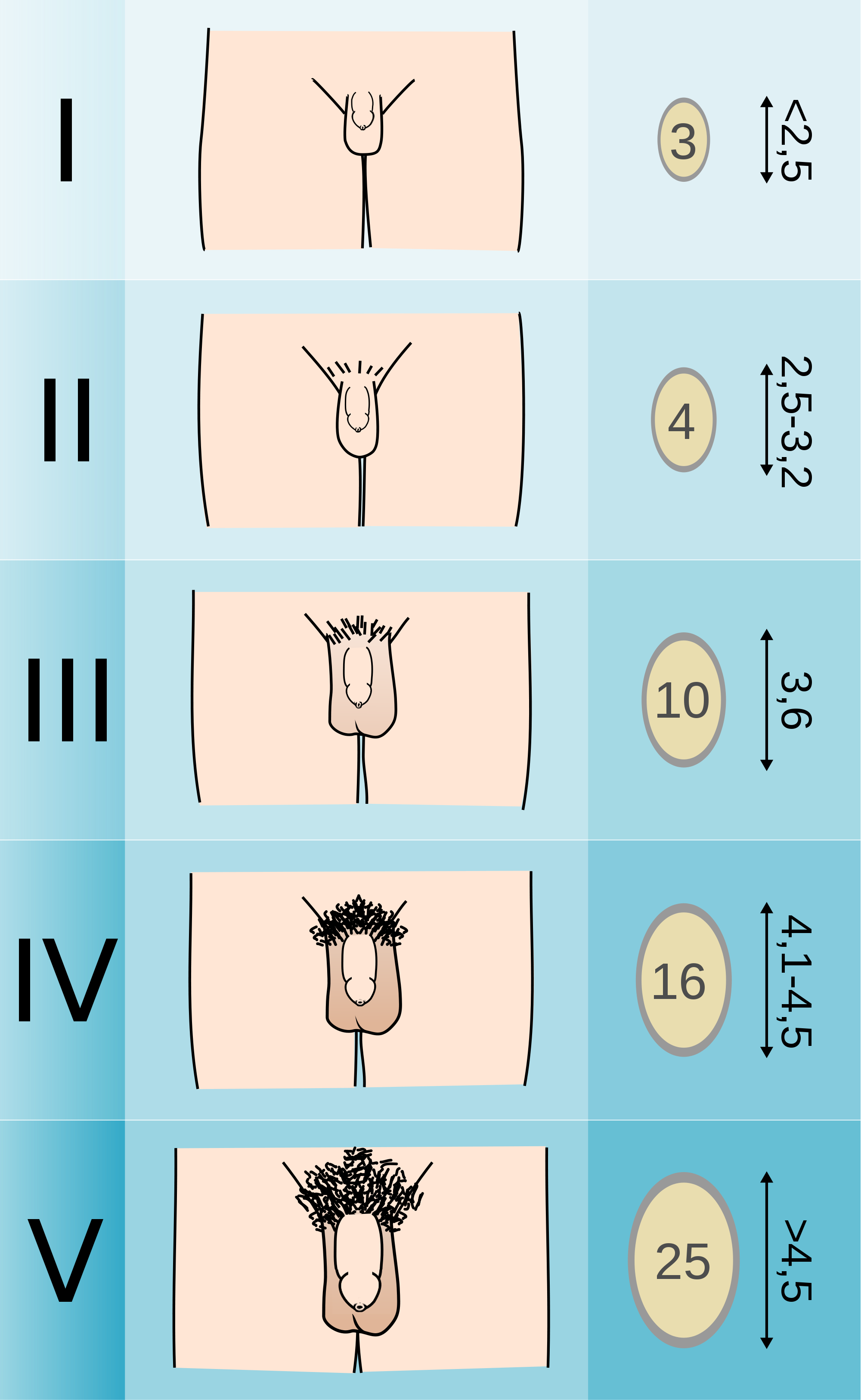 The Tanner scale (also known as the Tanner stages/staging) - Male. The (average) size of the testis and the capacity in mL